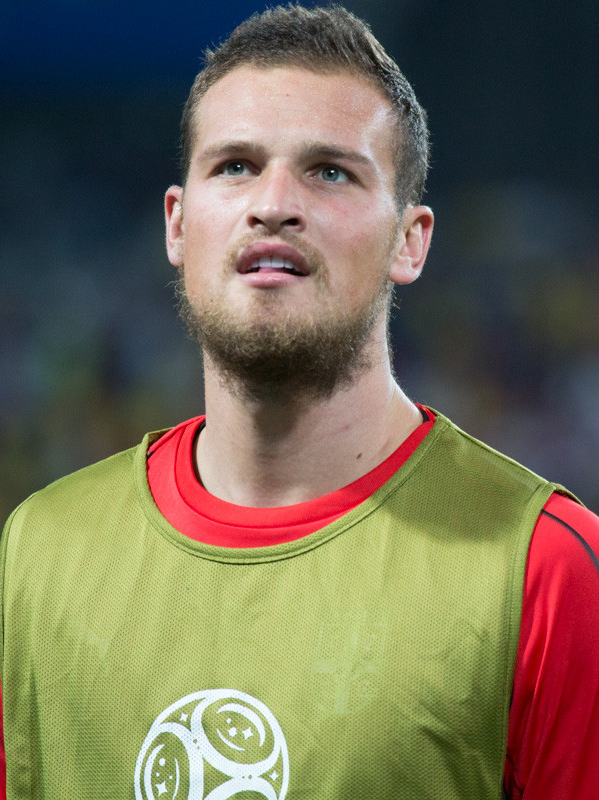 Serbian footballer Predrag Rajković on 27 June 2018, during the 2018 FIFA World Cup group stage match between Serbia and Brazil.